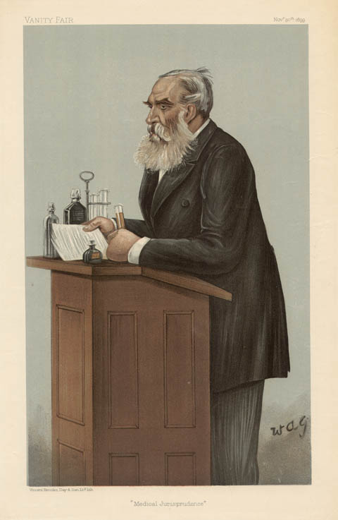 Caricature of Dr T Stevenson FRCP. Caption read "Medical Jurisprudence".